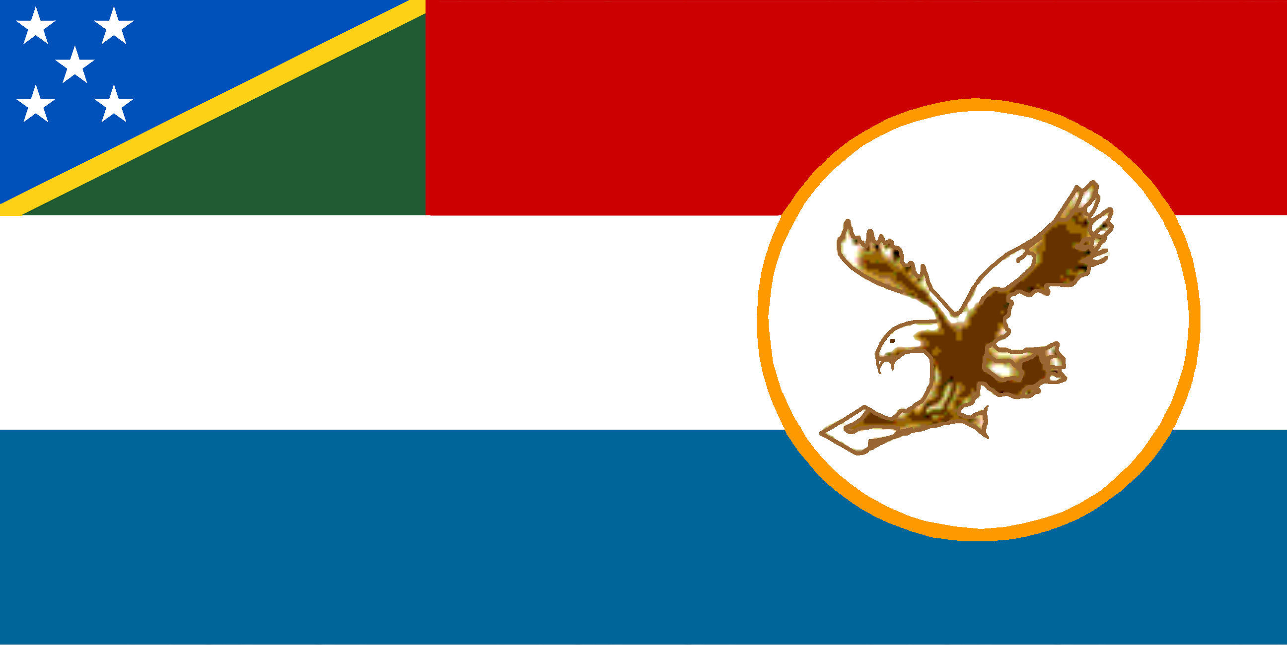 Flag of Malaiita Province Solomon Islands